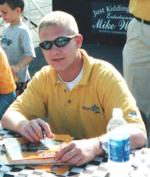 NASCAR driver Kevin Grubb at an autograph signing in 2002.